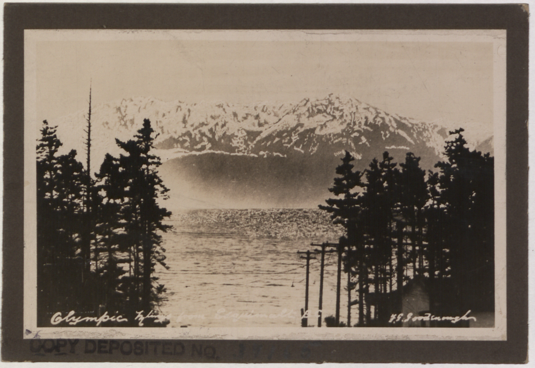 Olympic Mtings. From Esquimalut, B. C..